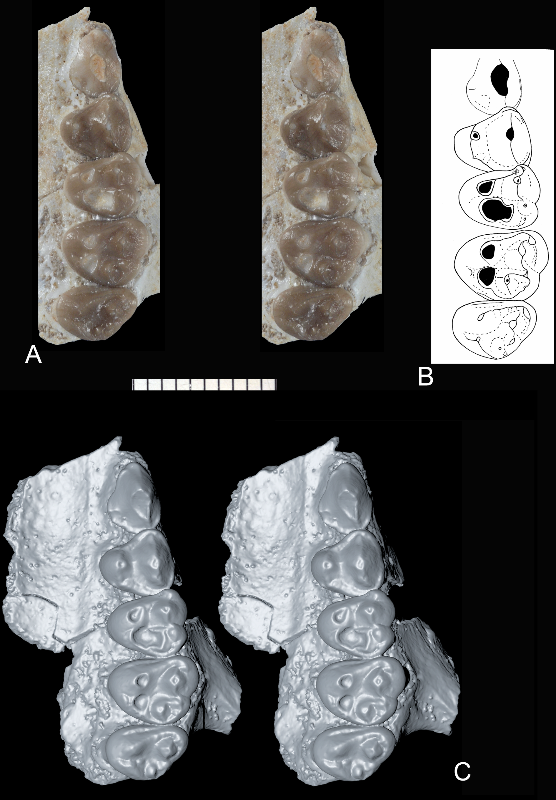 Abdounodus hamdii, Selandian (Phosphate level IIa) of the Ouled Abdoun Basin, Morocco. MHNM.KHG.154 (collections of the Natural History Museum of Marrakech), left maxillary of preserving P3-4, M1-3; (A) strereophotographic pair of P3-4, M1-3 in occlusal view; (B) occlusal sketch; (C) strereophotographic pair of 3D models reconstructed from CT scans in occlusal view. The 3D models of MHNM.KHG.154 were reconstructed by F. Goussard (MNHN) from the CT scans using the computer programs Materialise Mimics Innovation Suite 18.0 Research Edition (x64), and Maxon Cinema 4D R15. Scale bar = 10 mm.